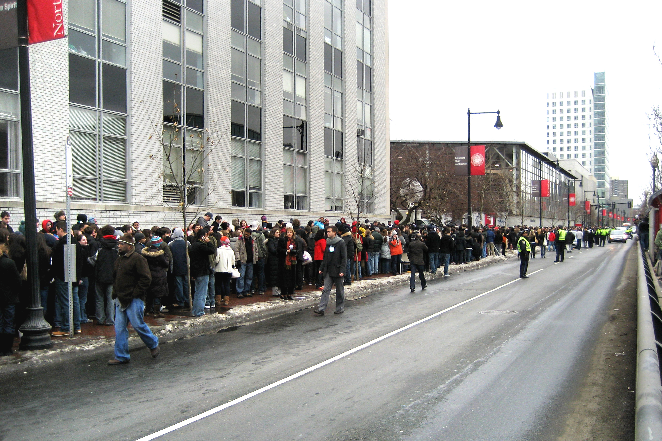 People standing in line along Huntington Avenue in Boston to get into the Cabot Center where U.S. President Obama appeared to campaign for U.S. Senate candidate Martha Coakley.